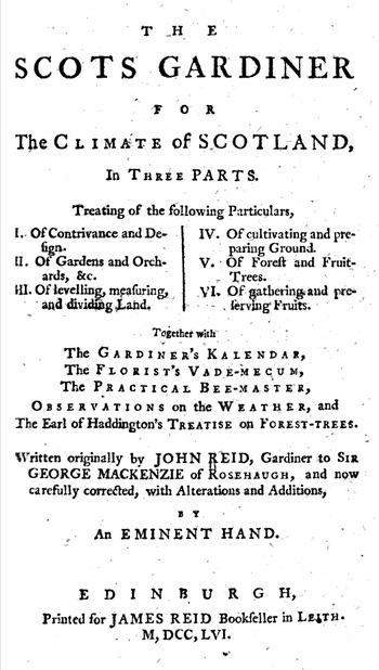 Frontispiece from John Reid, The Scots Gard'ner, 1683